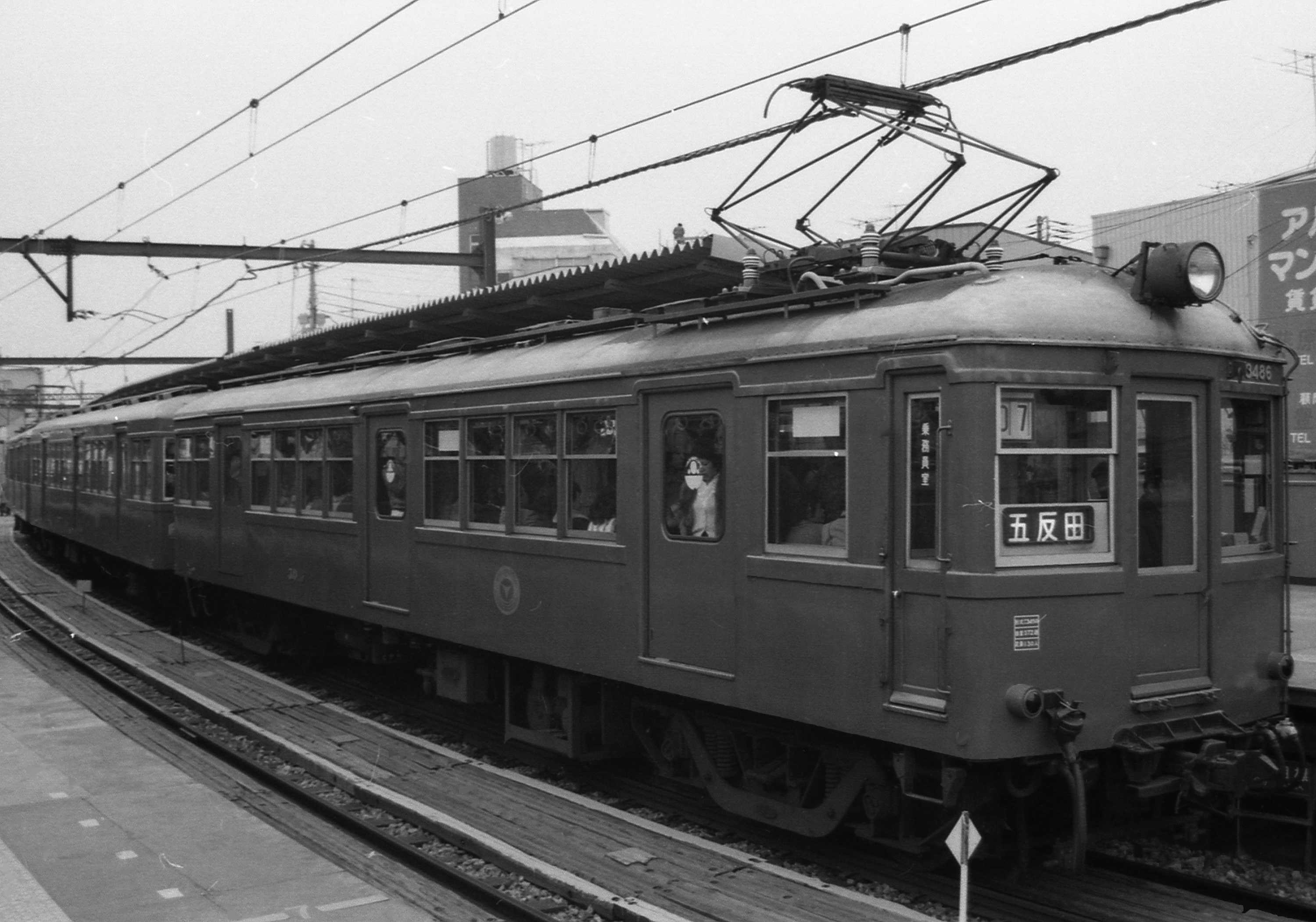 Tokyu 3450 at Ebara-Nakanobu Station